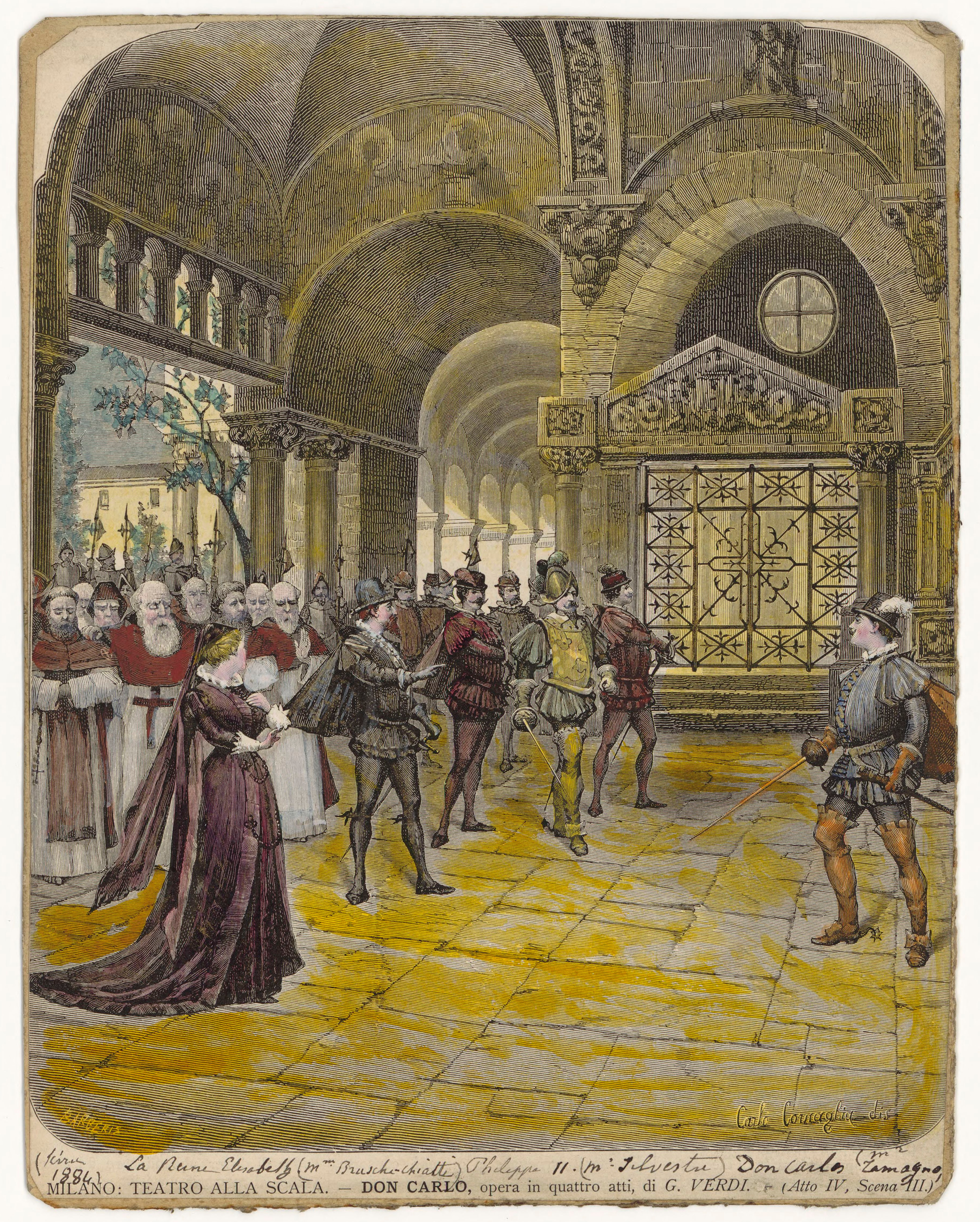 Act IV (V in the original version), Scene 3 of Giuseppe Verdi's Don Carlo, as performed at La Scala in the 1884 (that is, the première of the Milan version of the opera).